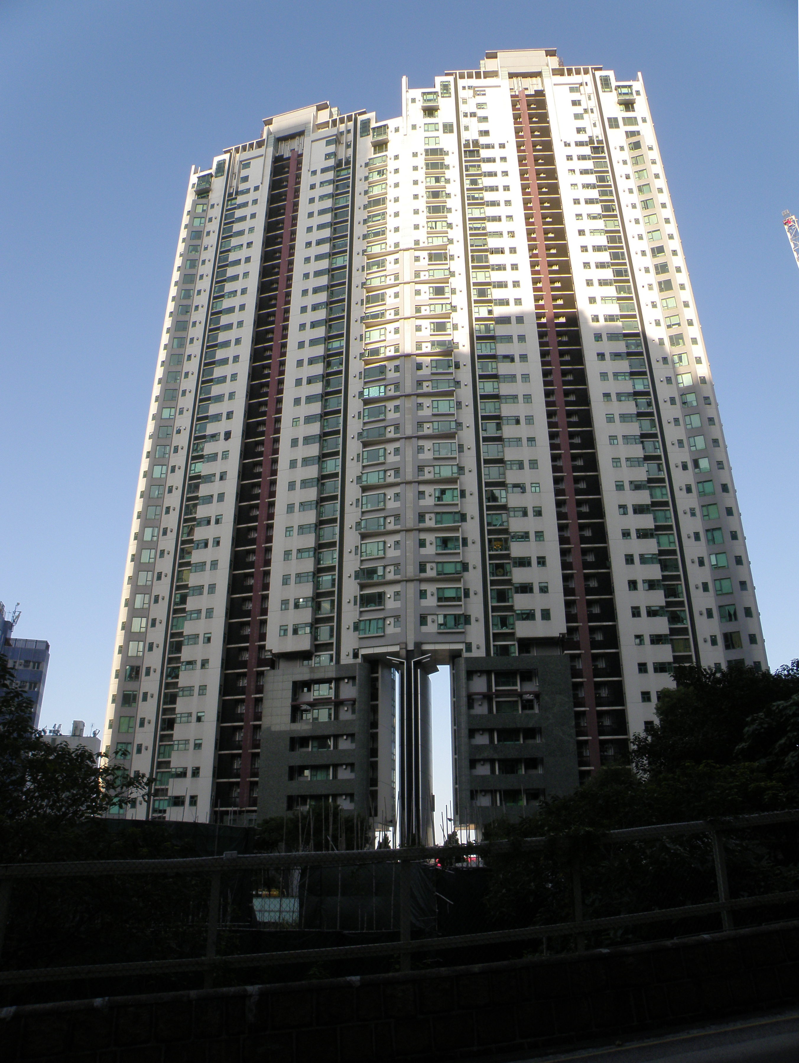 80 Robinson Road in Mid-levels West, Hong Kong.